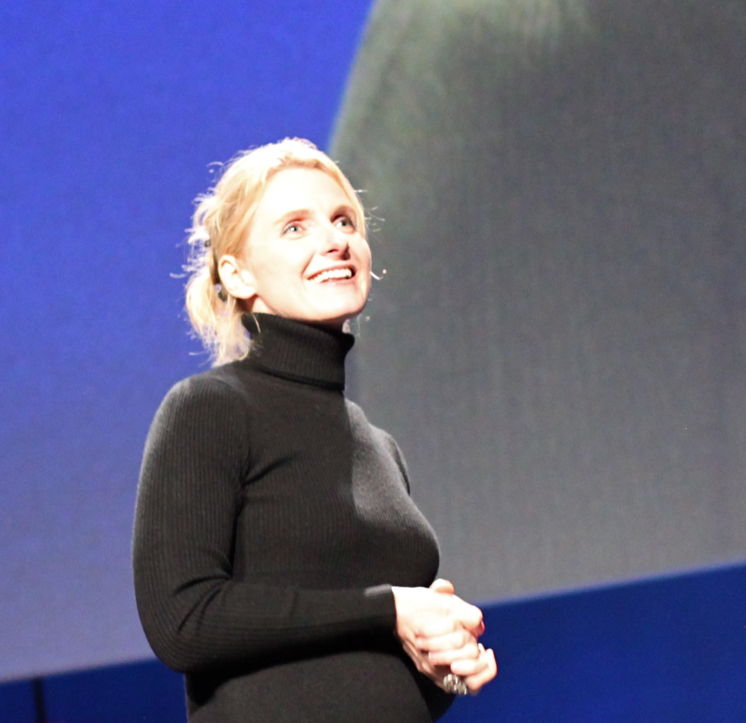 The ever-radiant Elizabeth Gilbert, author of Eat Pray Love, proposes a fanciful reinterpretation of creative genius, in an attempt to externalize the fear of failure. TED, 2009